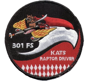 301st Fighter Squadron F-22 Patch